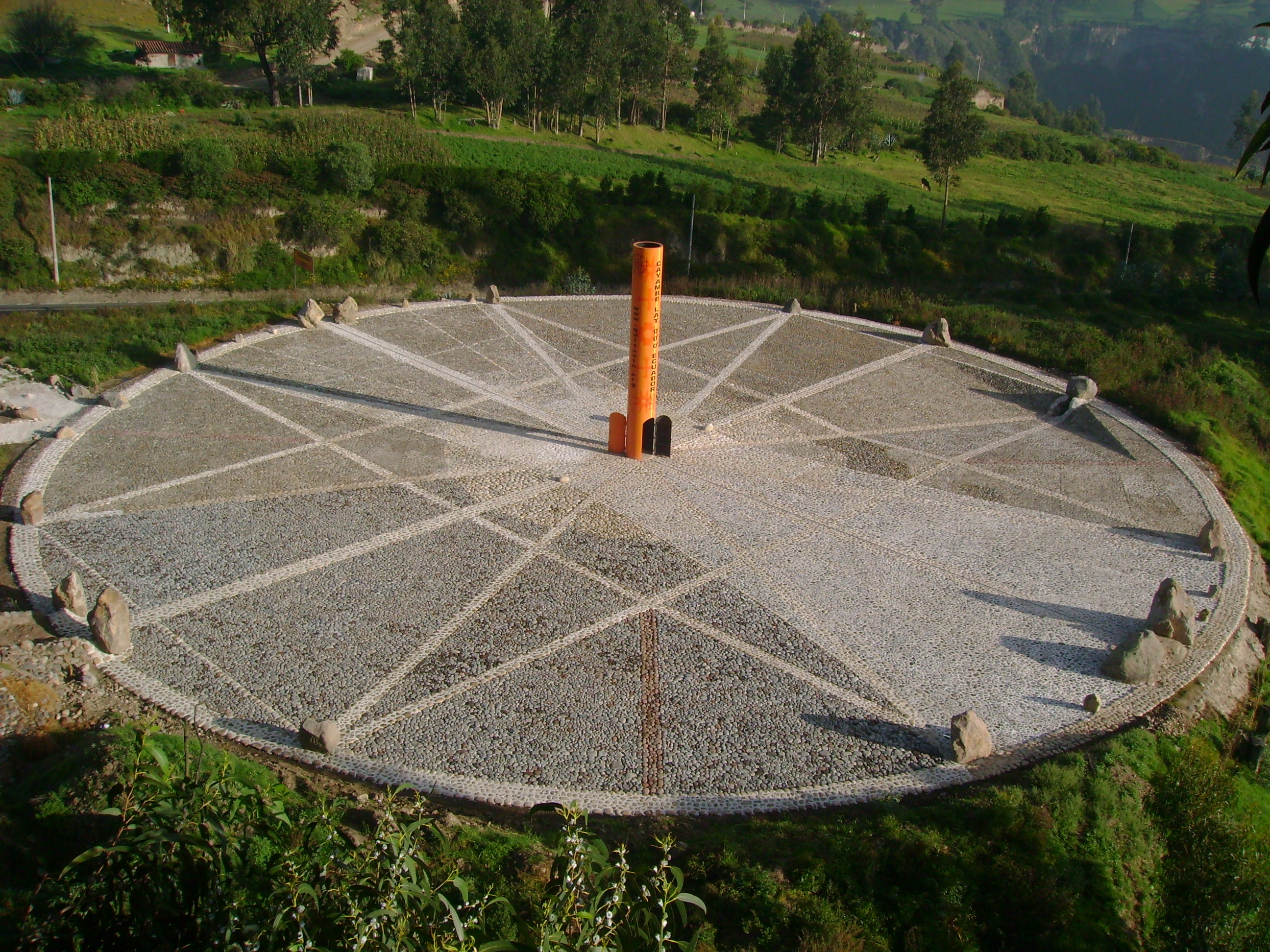 Panoramic view of Sundial located at Guachalá, near Cayambe, Ecuador